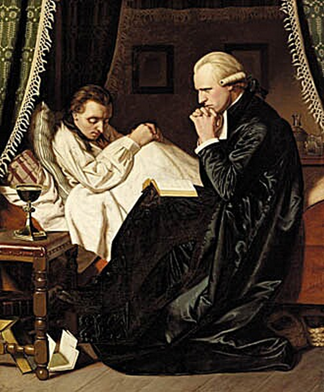 The author Johannes Ewald died in 1781 so Middelboe had to rely on old illustrations of his looks. The painting was awarded the Neuhausen prize at the Charlottenborg Exhibition of 1877.